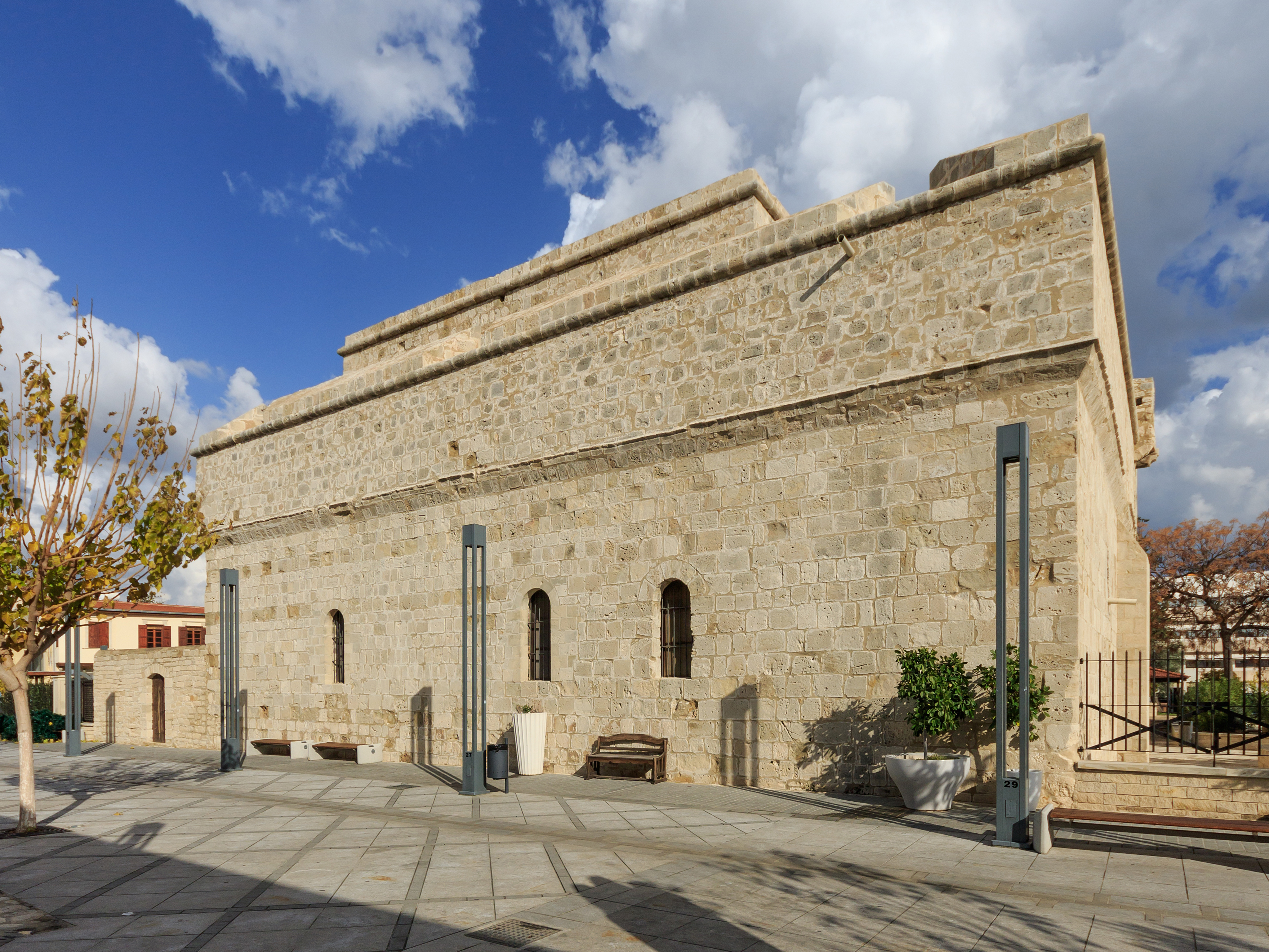 Exterior of the city castle in Limassol, Cyprus